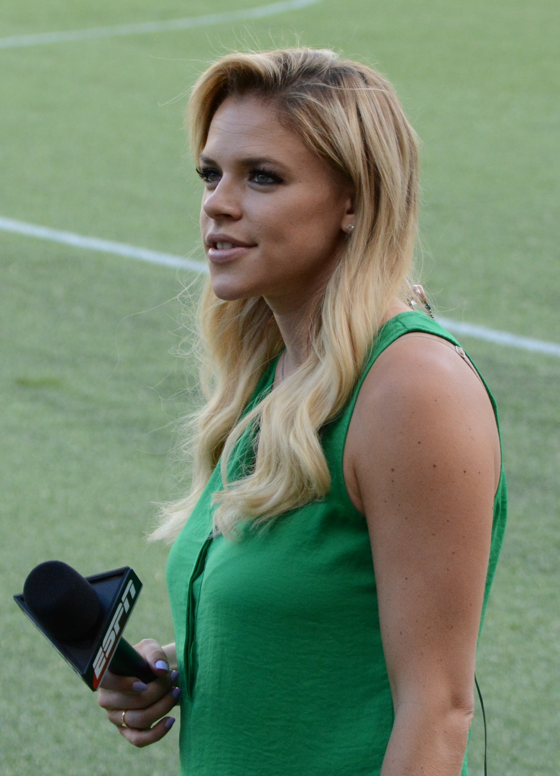 Julie Stewart-Binks standing on the sideline, reporting for ESPN. Taken at a U.S. Open Cup match between FC Cincinnati and Chicago Fire SC at Nippert Stadium in Cincinnati, Ohio on June 28, 2017.